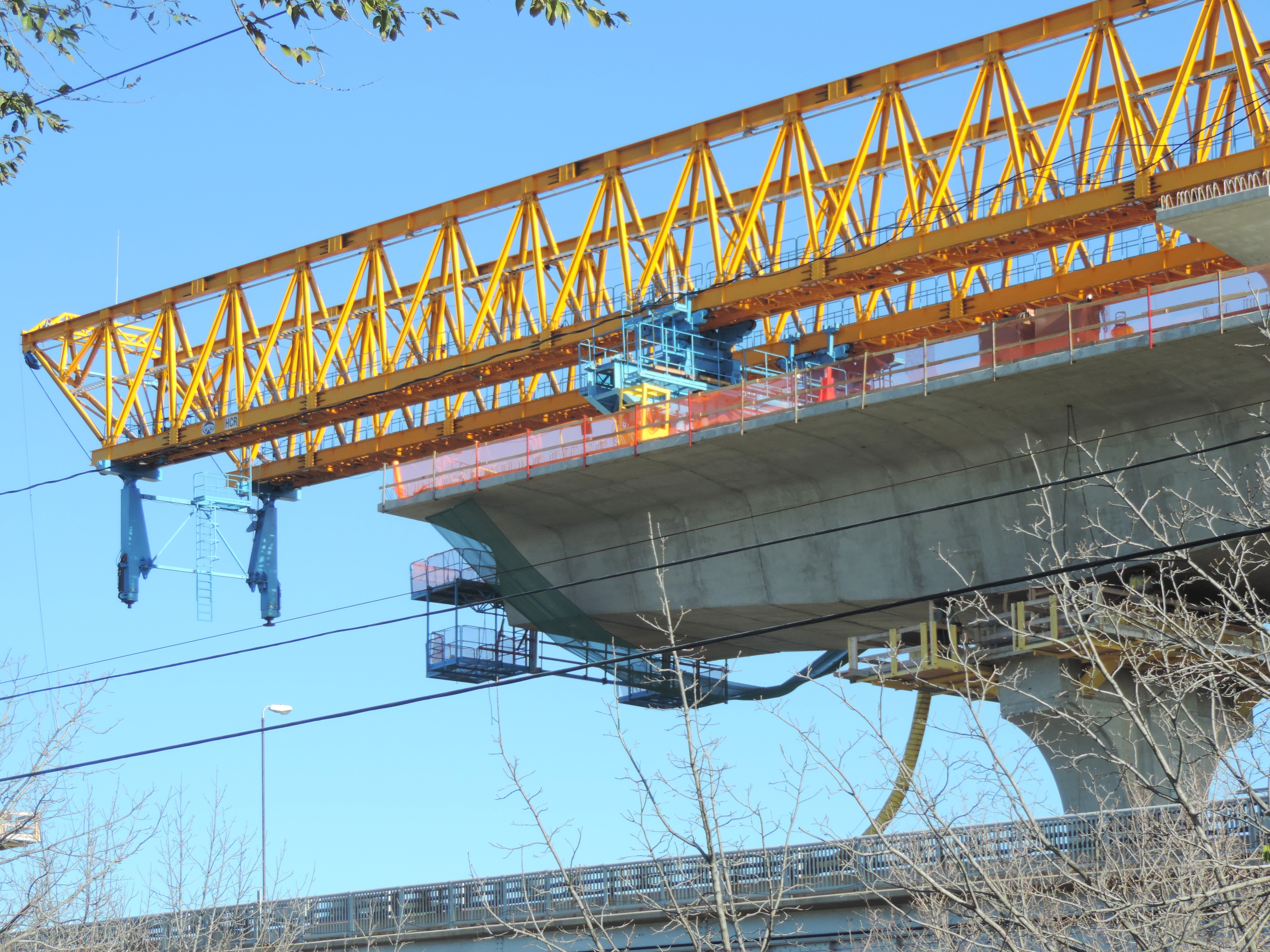 Looking east across Morningstar Rd at north end of new SI section of Bayonne Bridge on a sunny early afternoon